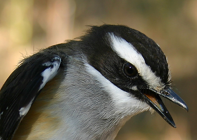 BSR detail © Paul Barden 2007